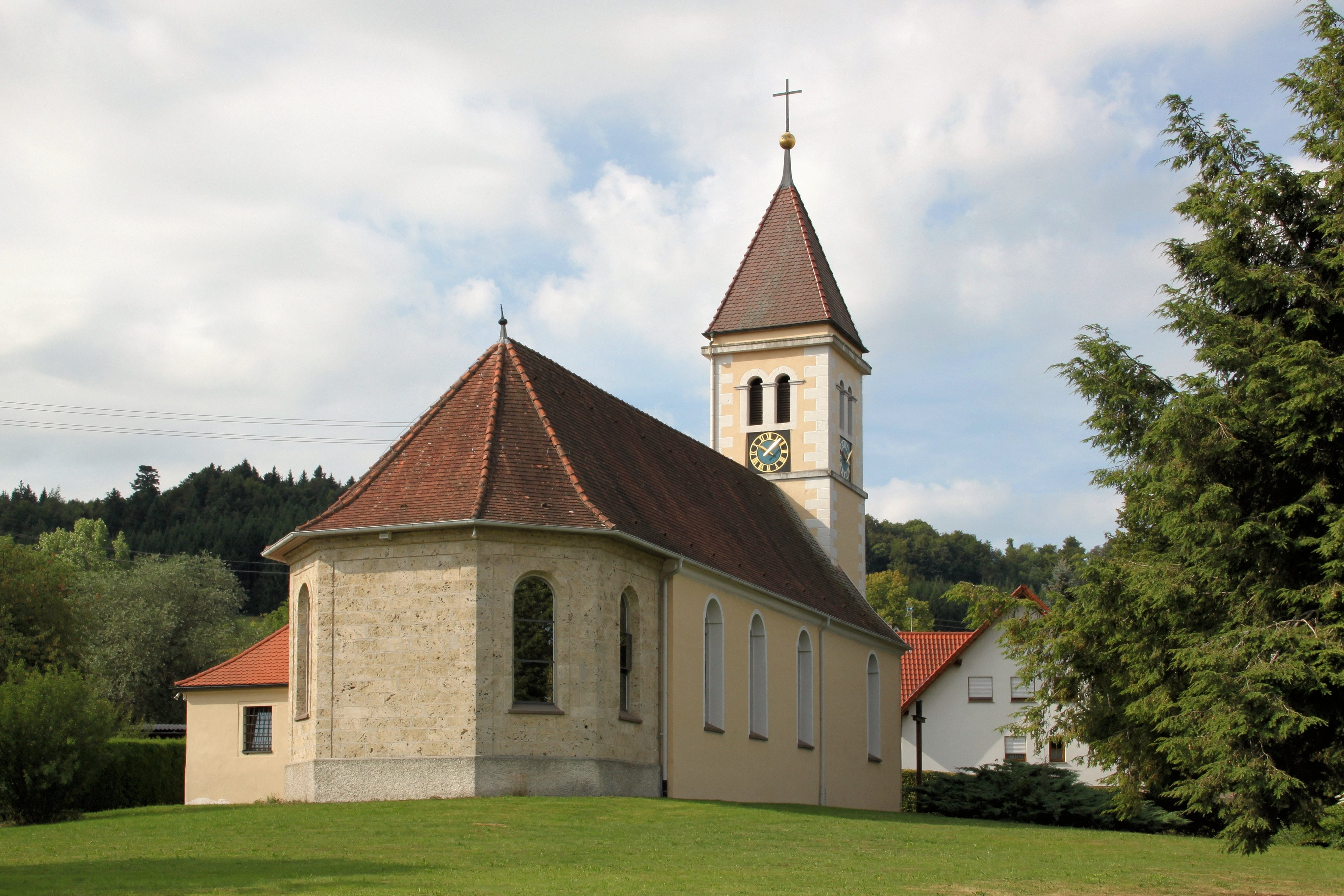 Weilen unter den Rinnen: Saint Nicholas Catholic church